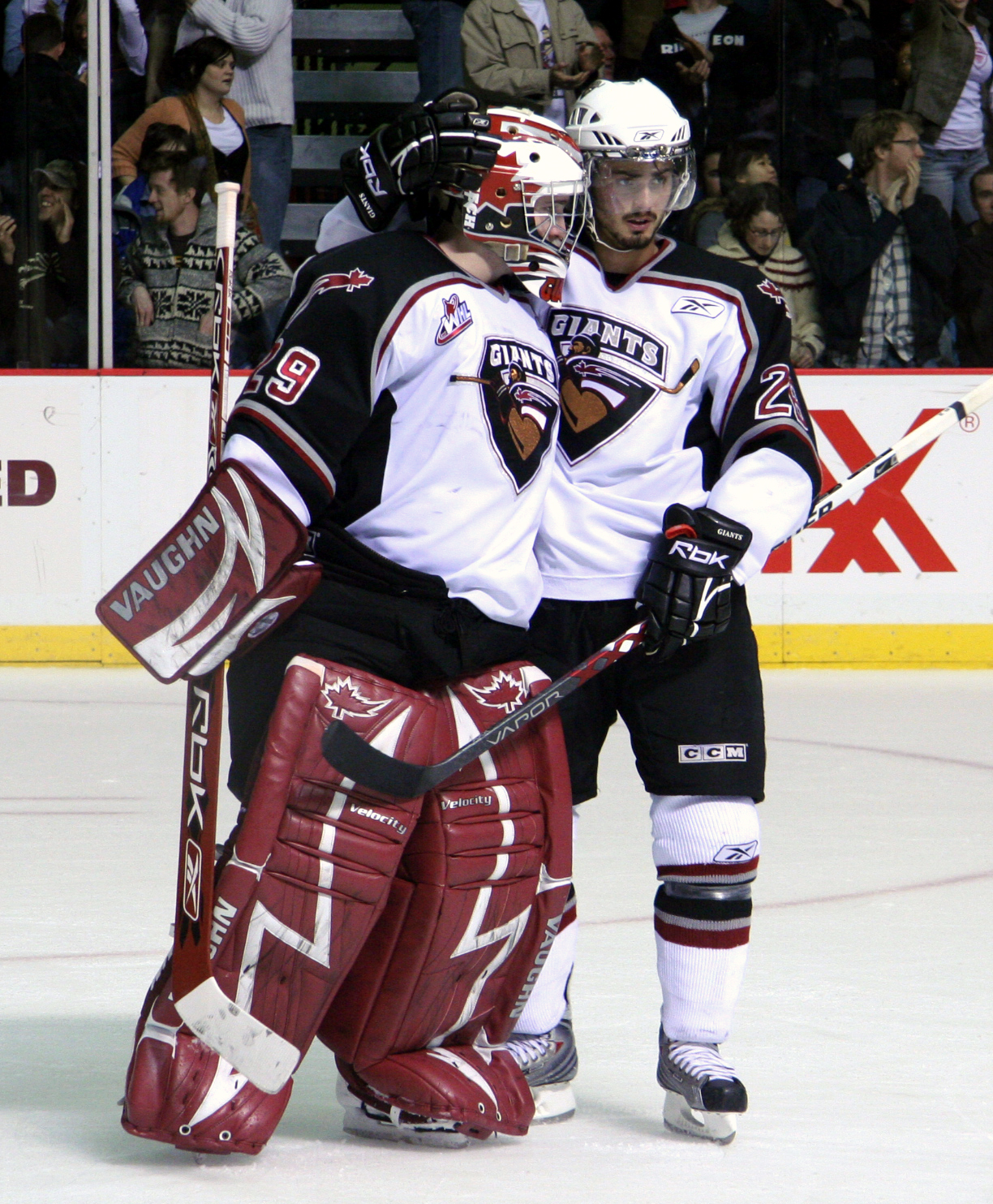 Tyson Sexsmith & Michal Repik, ice hockey players of the Vancouver Giants. Friendly pat for the Vancouver Giants' goalie after a great 3-2 game. WHL Play-offs, Round 3, Game 1.